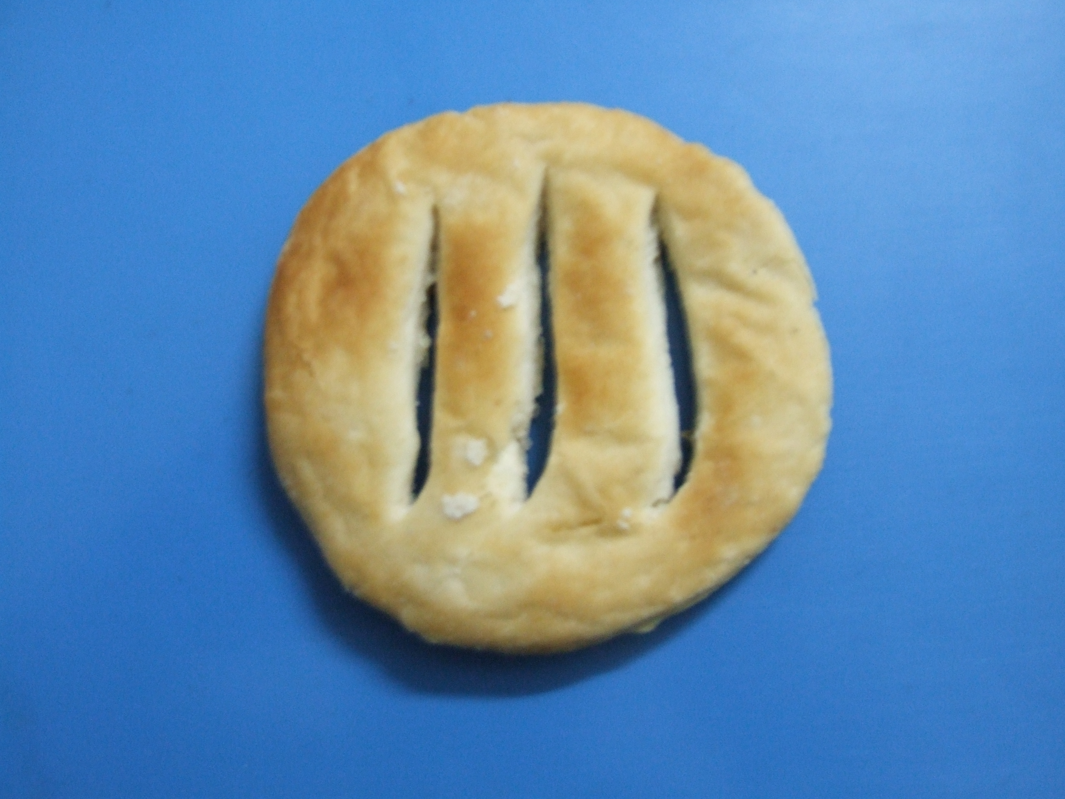 Fastfood, Old Dhaka Style. :)